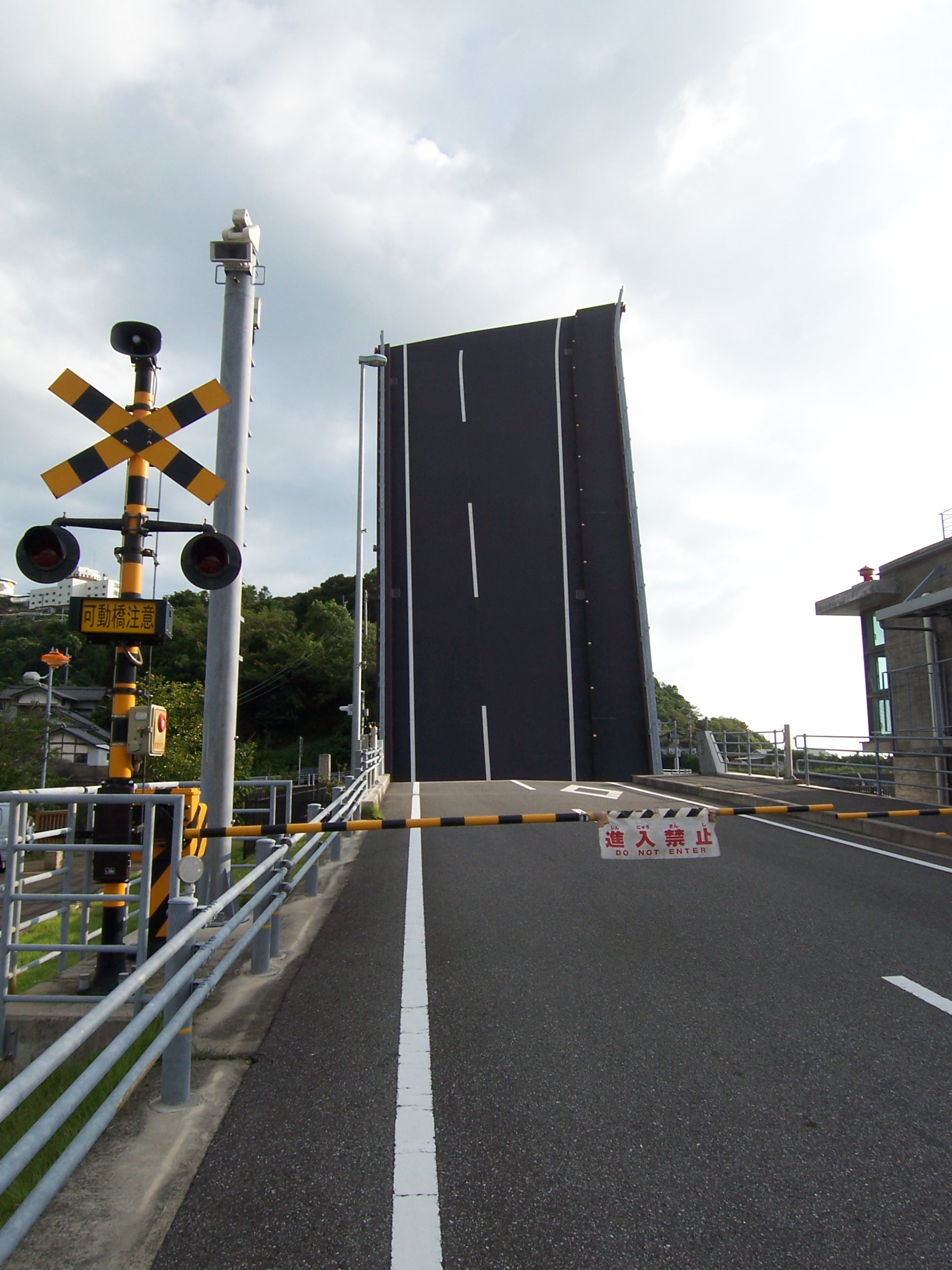 Tei harbor drawbridge, Kami city, Kochi prefecture, Japan.